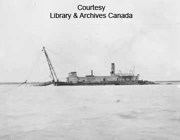 Hudson Bay terminus hydraulic dredge at work on the ship channel, Port Nelson. Original caption: “Hudson Bay terminus hydraulic dredge at work on the ship channel, Port Nelson, Man. Location: Port Nelson, Manitoba Courtesy Library & Archives Canada, PA041489”